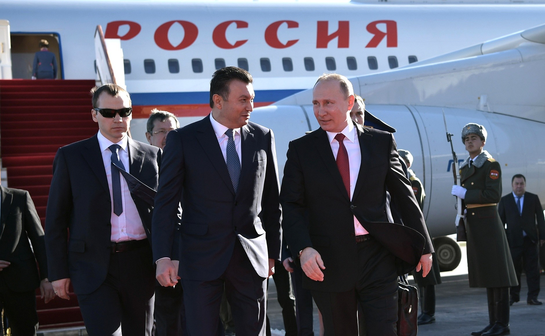 Tajik Prime Minister Kokhir Rasulzoda and Russian President Vladimir Putin.